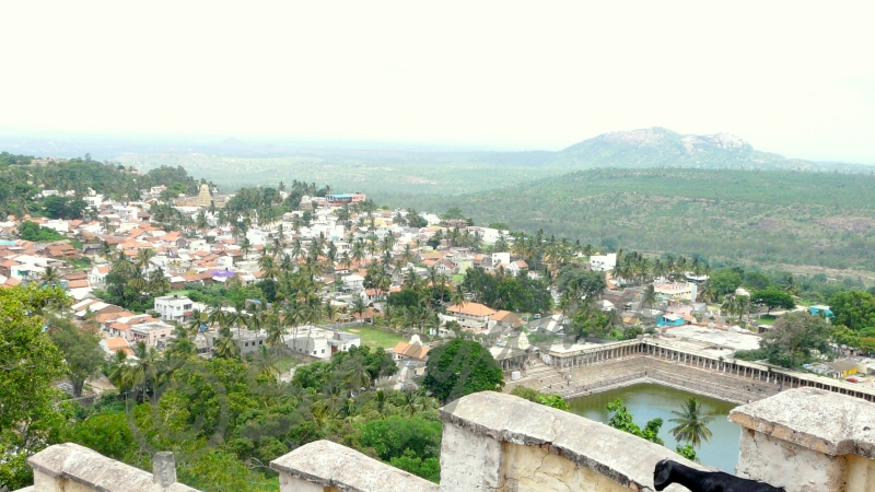 A view from Yoga Narasimhaswami Temple Melukote.